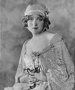 Mary Pickford, half-length portrait, sitting, facing slightly left, with motion flower in hands and a hat on